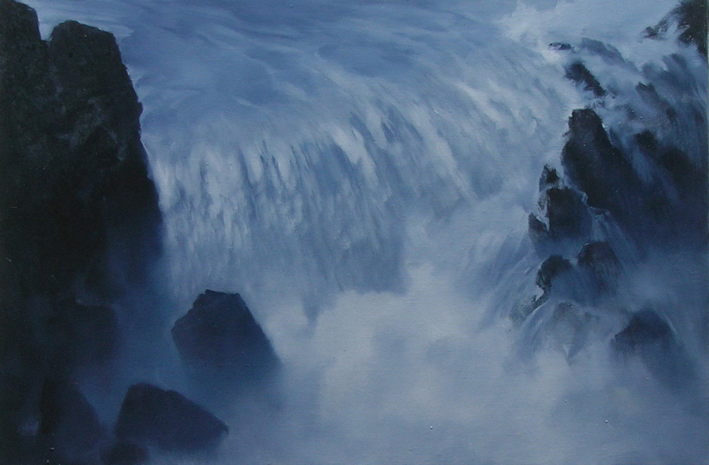 Stromschnelle - artwork. (Oil on canvas, 40 x 60 cm.)